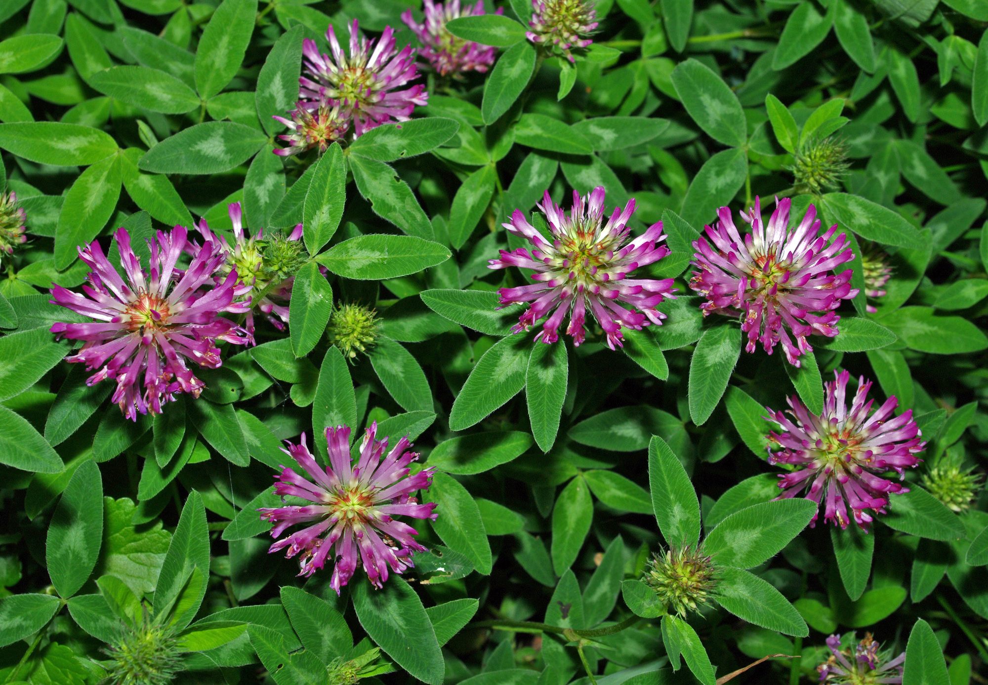 Aspect of Zigzag Clover (Trifolium medium).